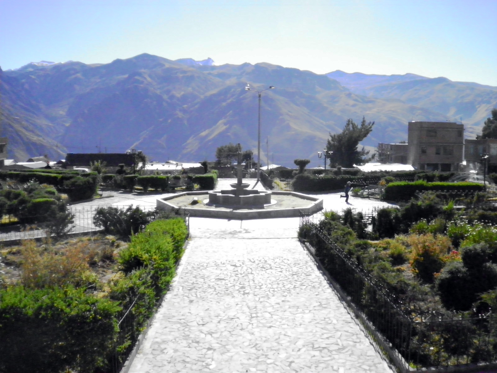 The Plaza in Pinchollo, Perú.